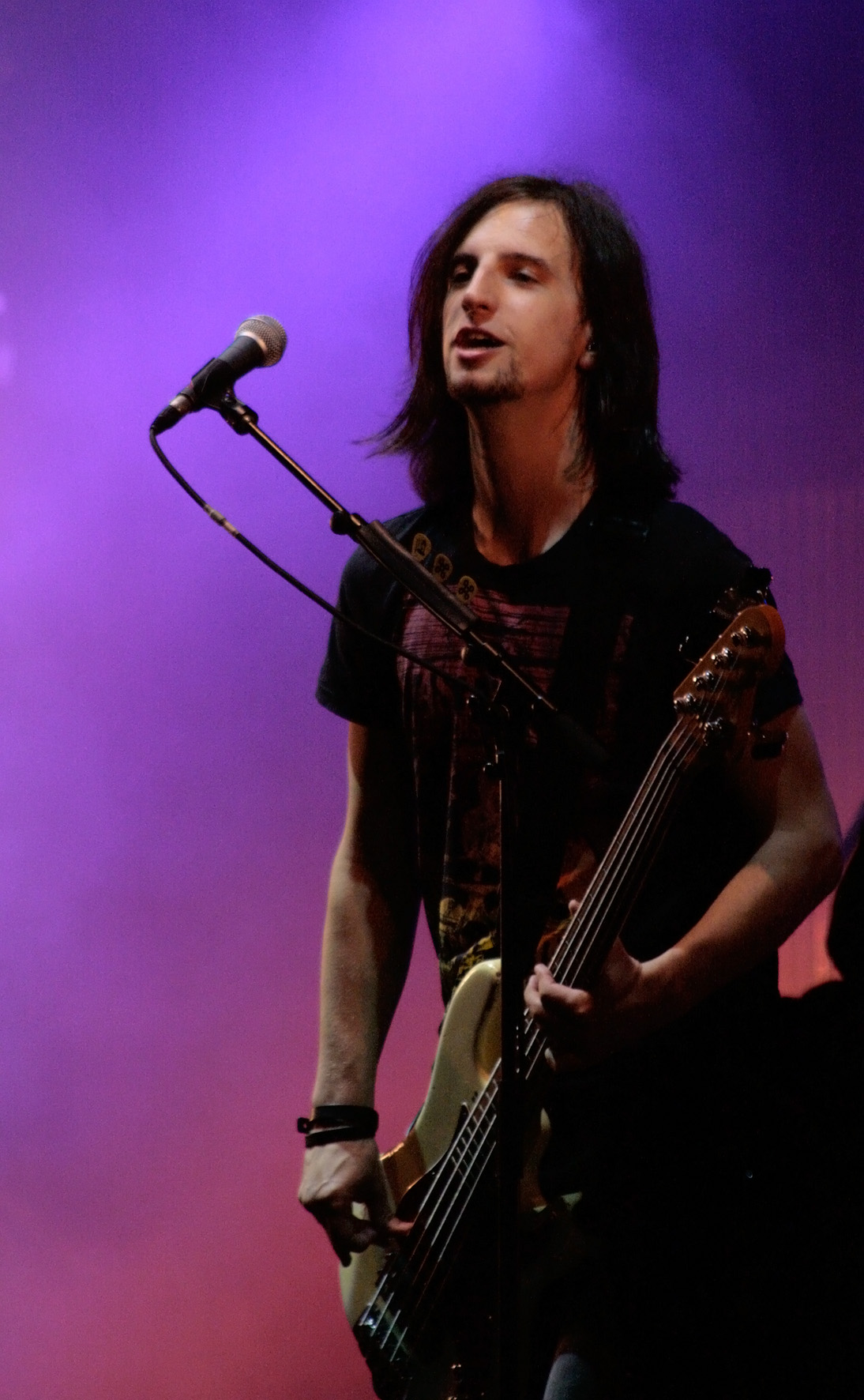 Silbermond at the Donauinselfest 2009